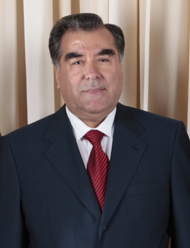 President Barack Obama and First Lady Michelle Obama pose for a photo during a reception at the Metropolitan Museum in New York with Emomali Rahmon.